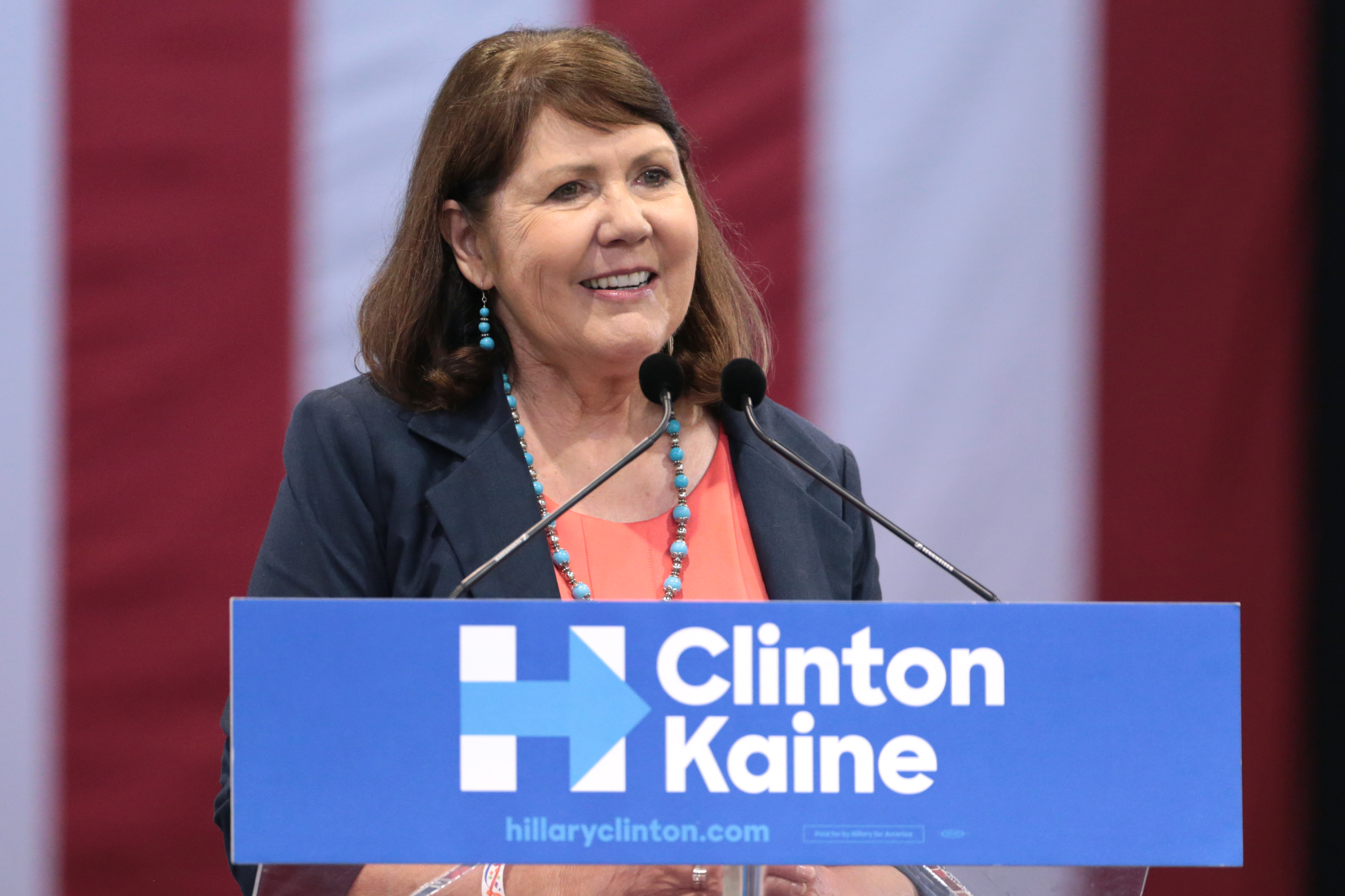 Ann Kirkpatrick speaking at a campaign rally in Phoenix, Arizona.